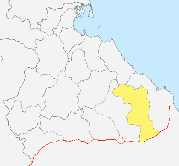 Map of Geumgang-Gun of North Korea